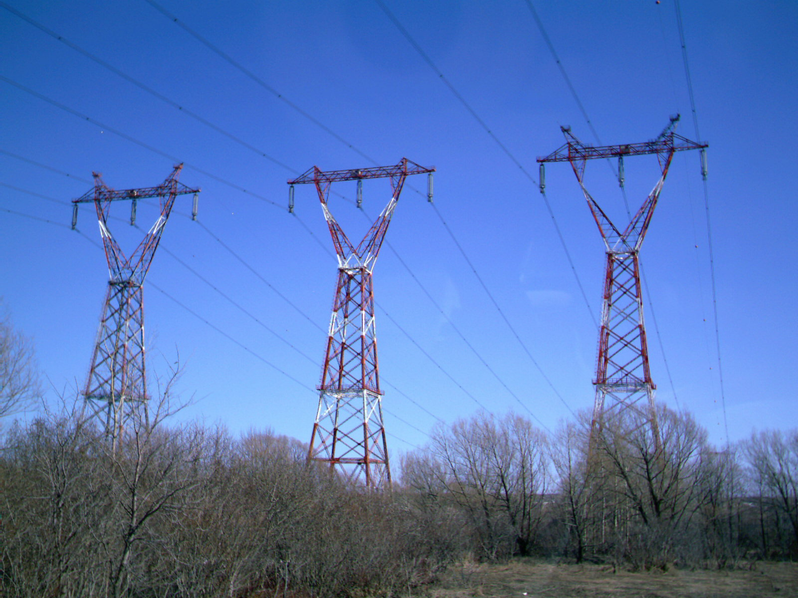 Hydro-Québec triple 735kV crossing near the Boischatel - L'Ange-Gardien line at Route 138, east of Quebec City